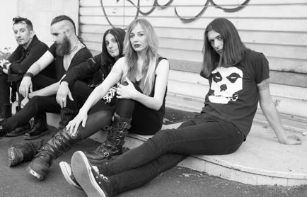 This Void Inside 2018